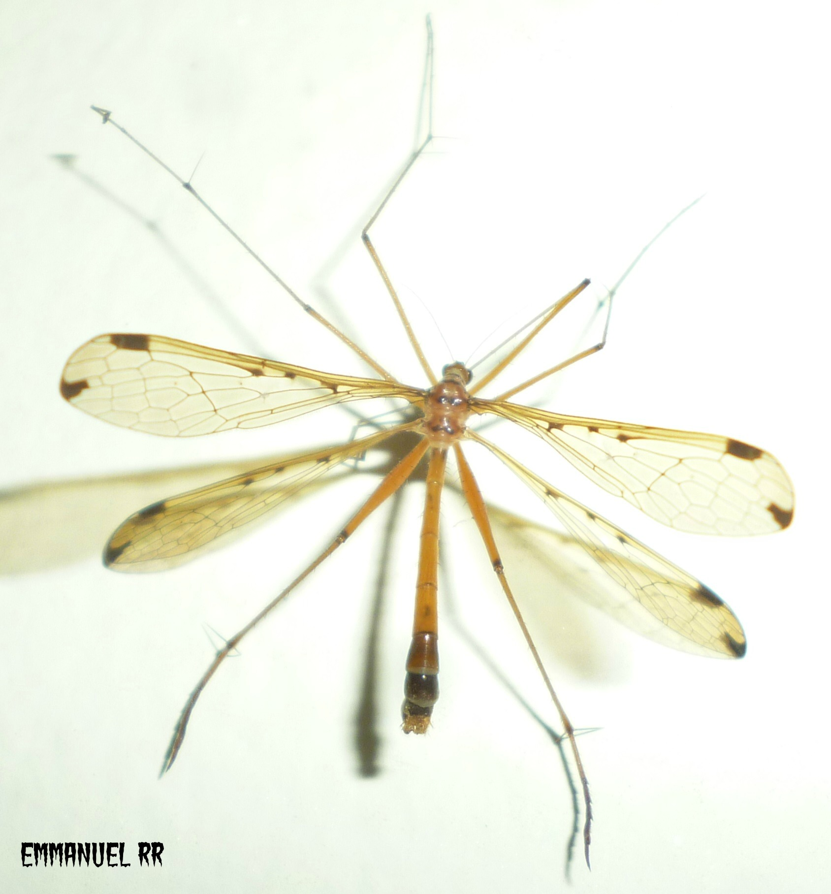 Mecóptera , Bittacidae, Kalobittacus demissus